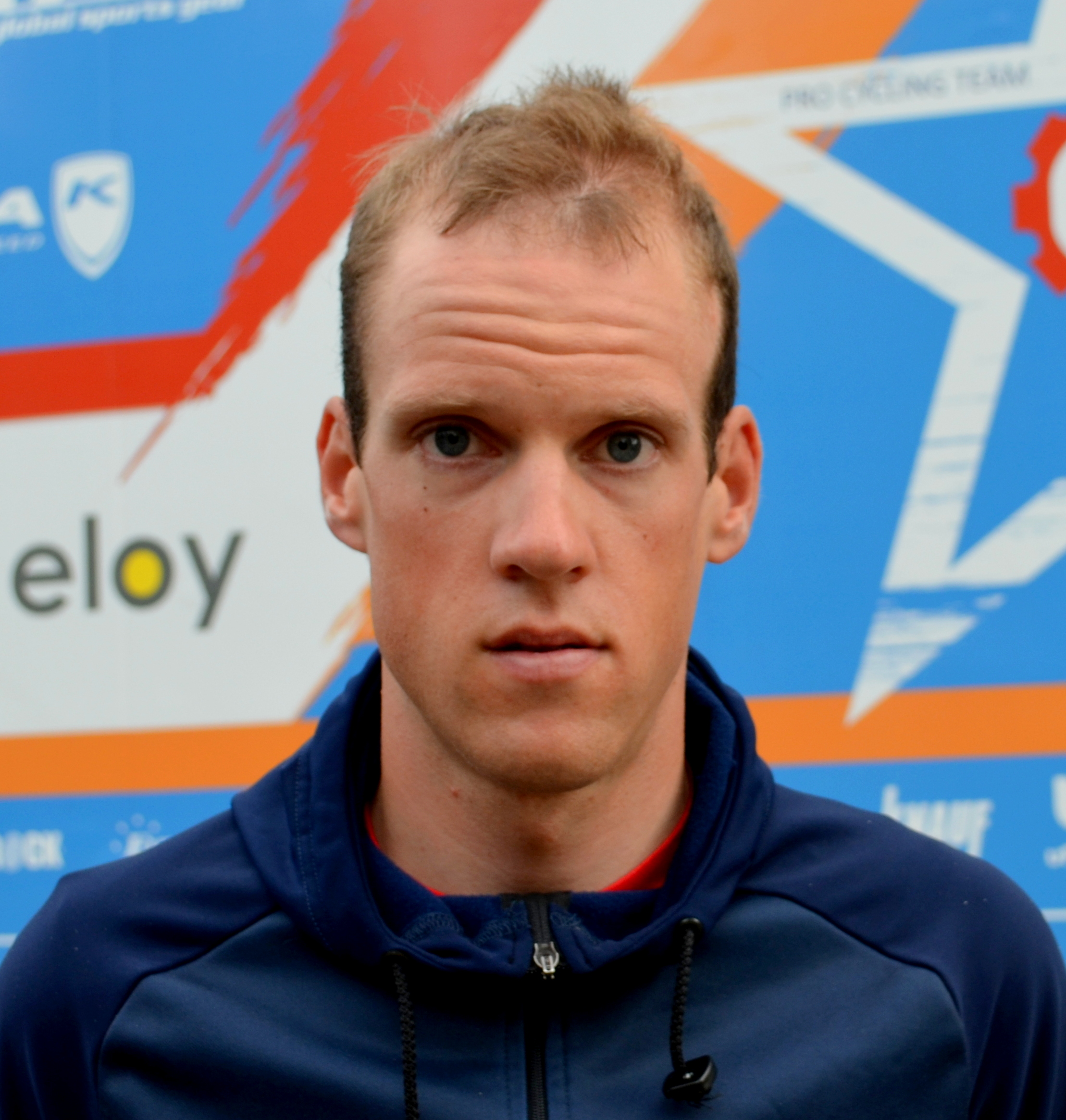 he days before the beginning of Tour de l'Ain 2014; road cyclist from Belgium Thomas Degand.